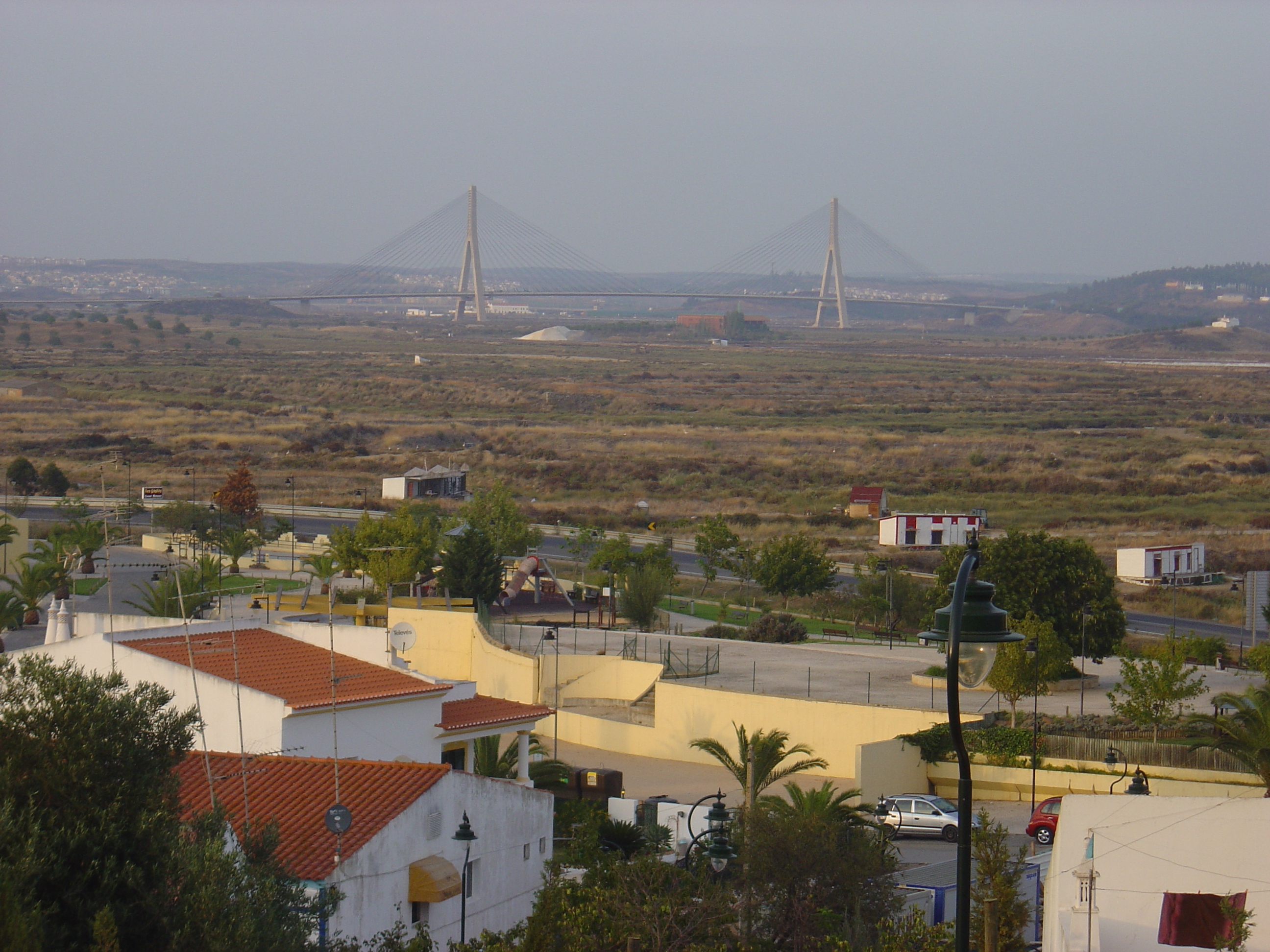 Castro Marim, Portugal, and the bridge connecting it to Spain